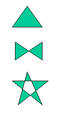 Kobon triangles (indicated in green) constructed with 3, 4 and 5 line segments.